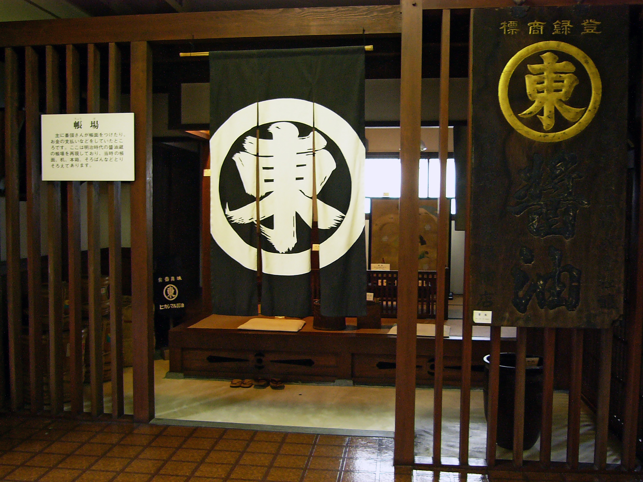 Usukuchi-Tatsuno-Shoyu Museum in Tatsuno, Hyogo prefecture, Japan